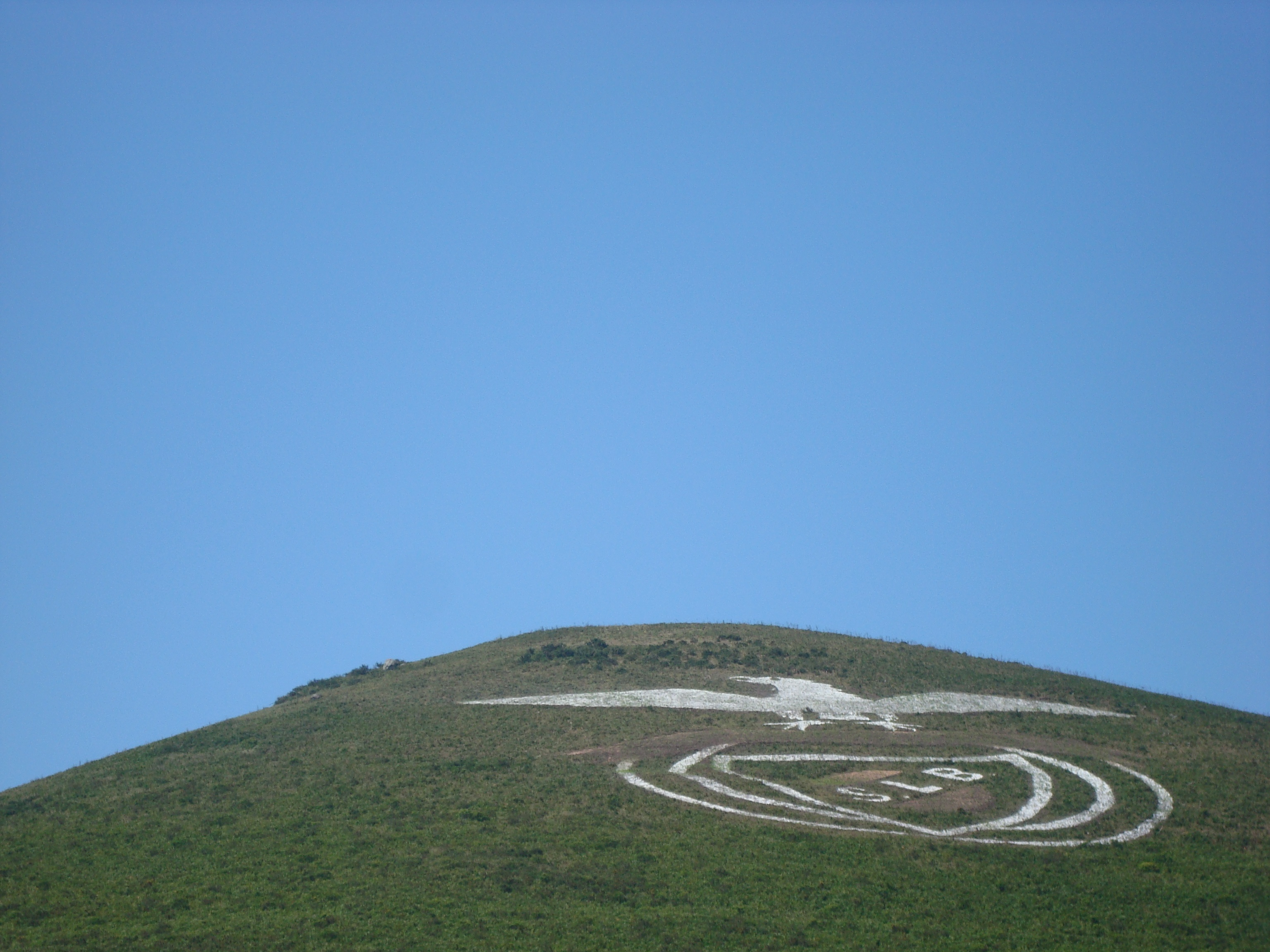 A benfica fan made this huge installation on one of the hills outside malveira. Awesome!